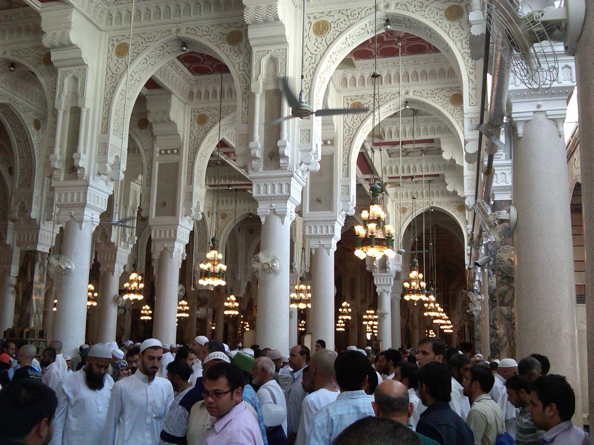 Masjid al-Haram, Mecca